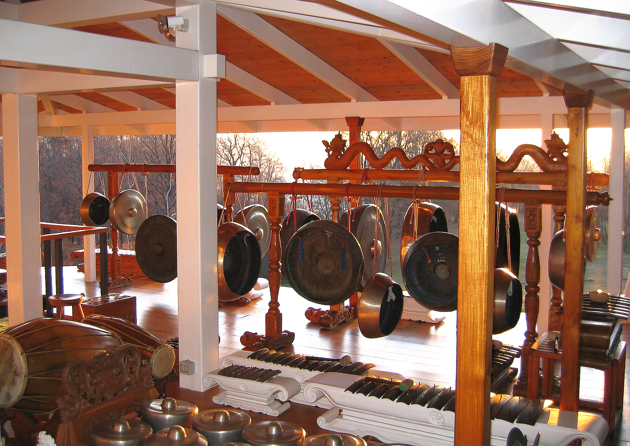 Instruments_(1)_of_Montebello_Gamelan.jpg own work 2005 Giovanni Sciarrino